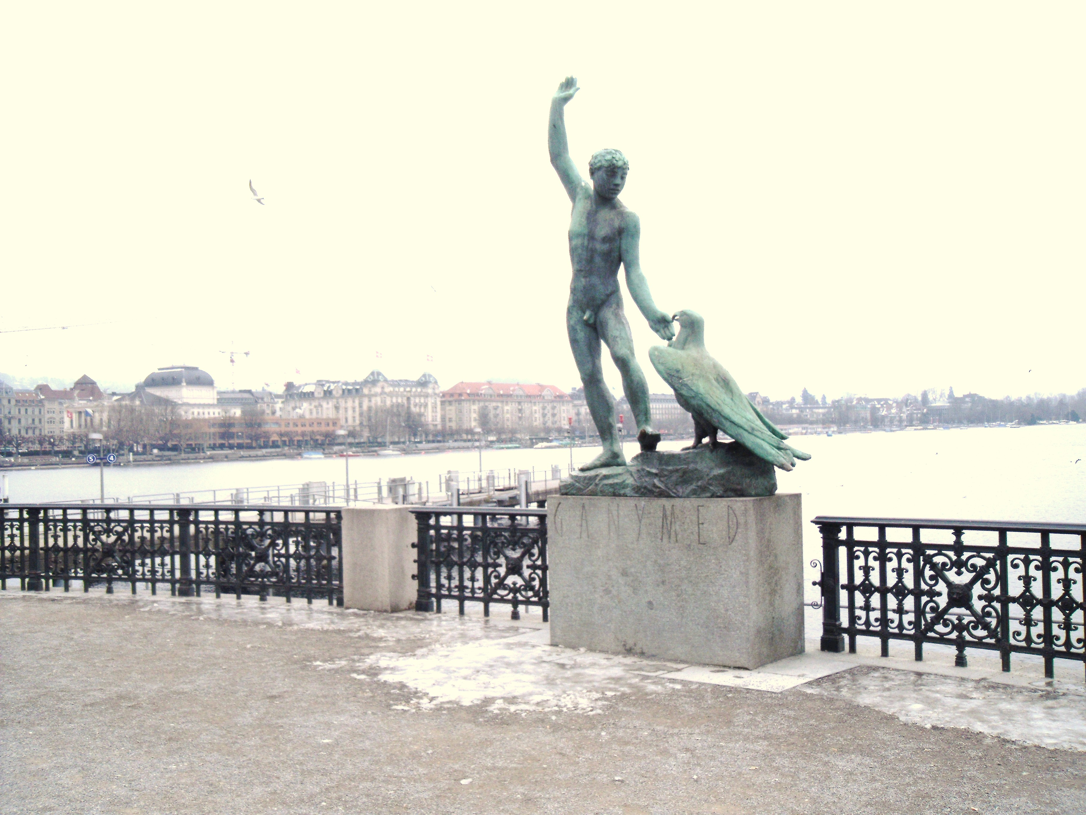 Ganymed Statue on the Zurich Lake